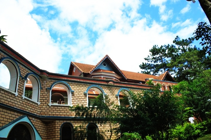 hinh khach san